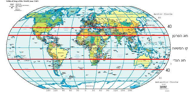 hebrew version of image:WorldMapLongLat-special-lats-emph-AntarcticCircle-non.png